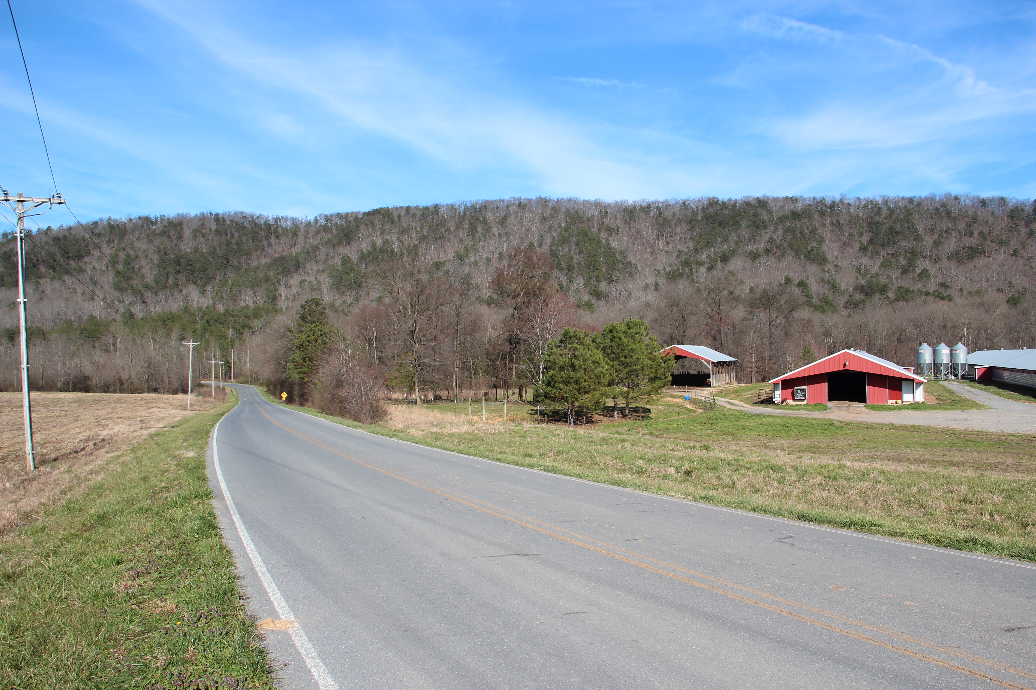 Baugh Mountain, viewed from the west